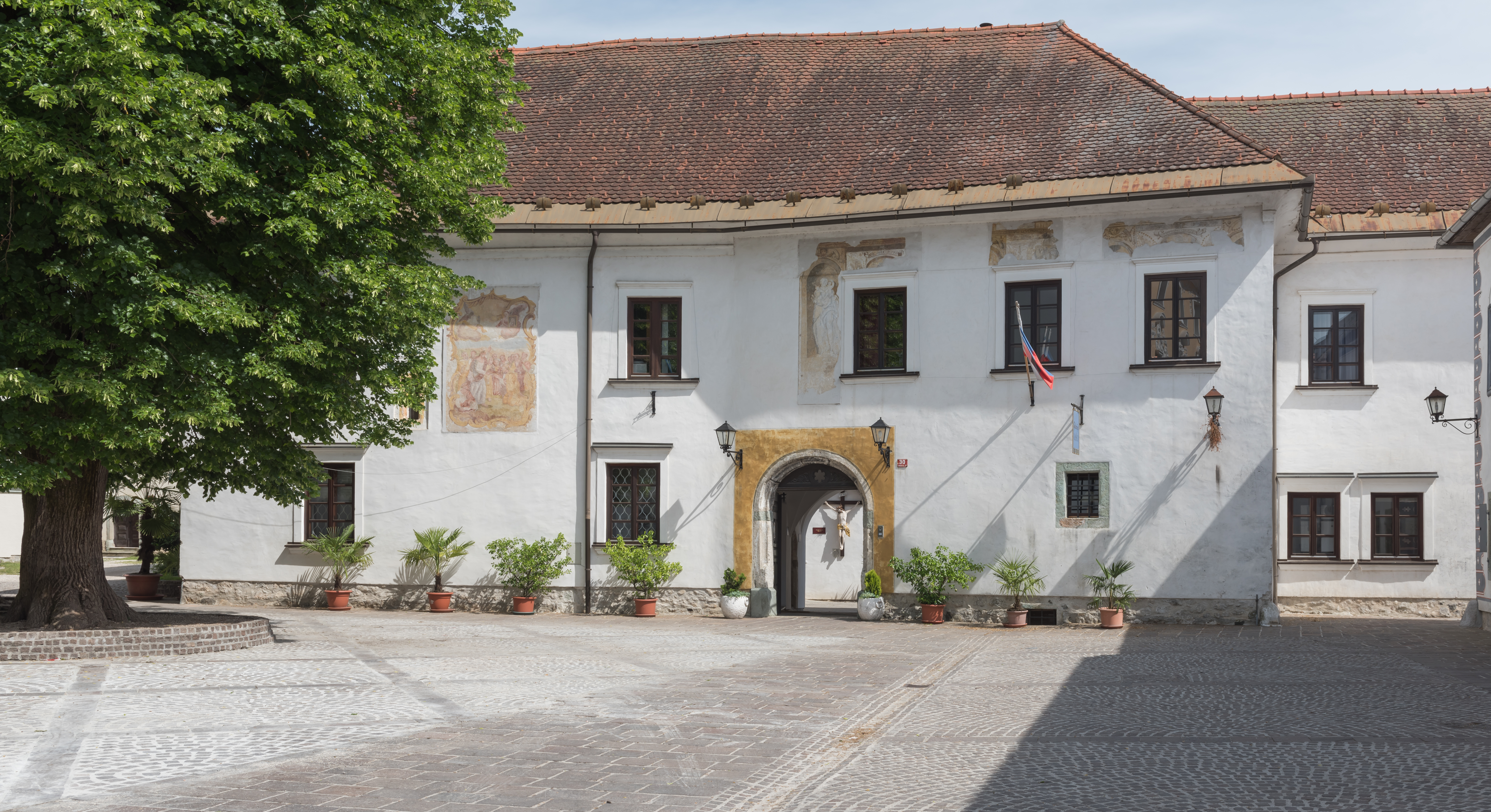 Rectory on Linhart Square #30, municipality Radovljica, Upper Carniola, Slovenia, EU